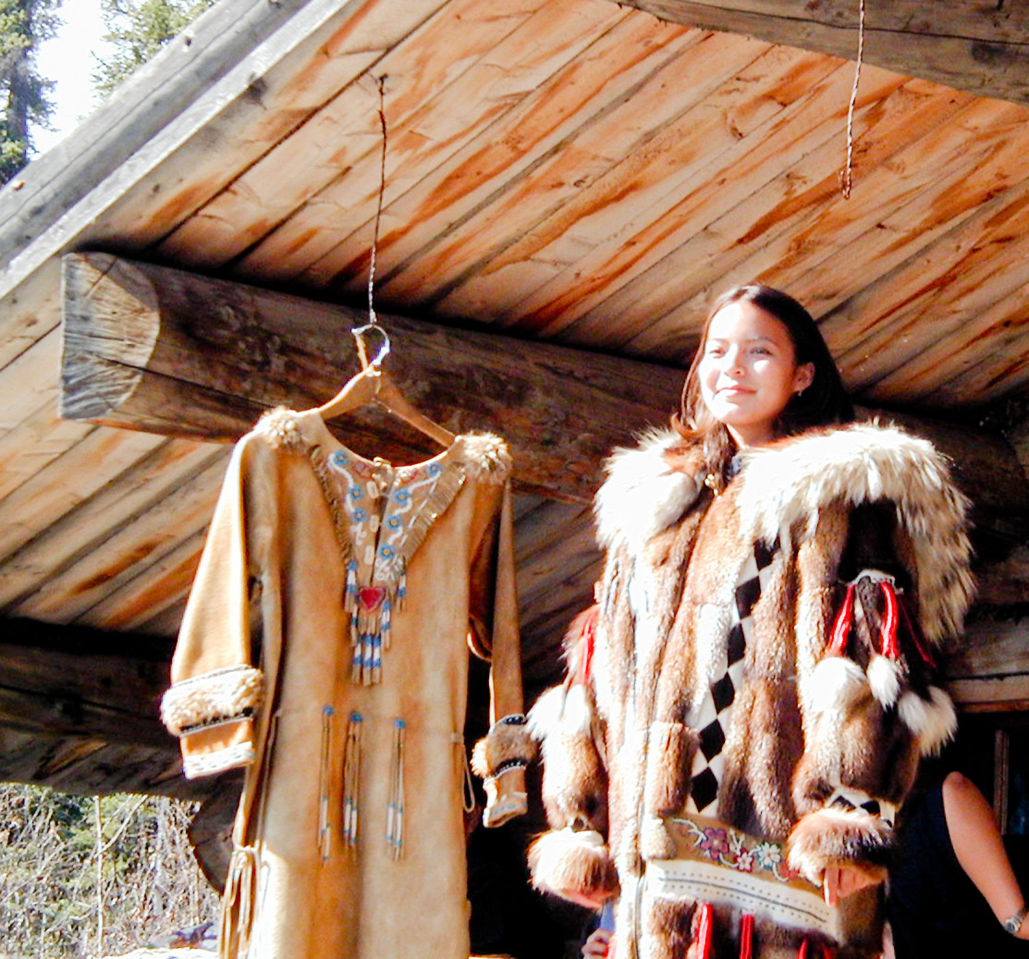 RV 2002 Roadtrip Talkeetna, Denali, Fairbanks